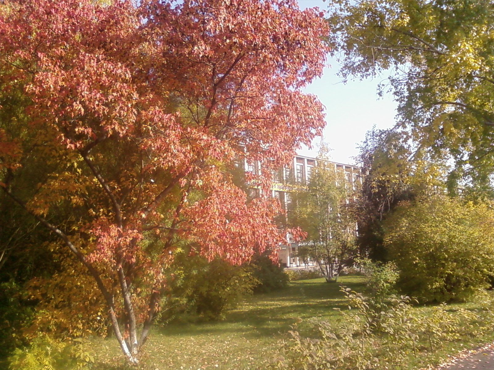 Altai State Technical University, Barnaul, Autumn 2008